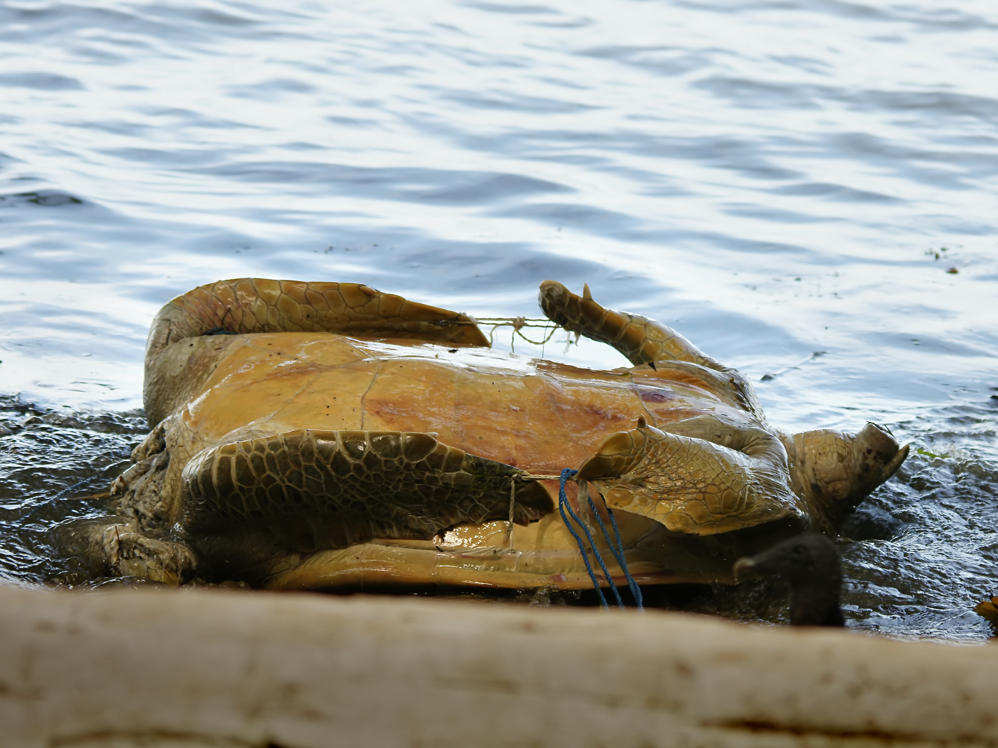 Poached Green turtle at Cahuita National Park, Costa Rica